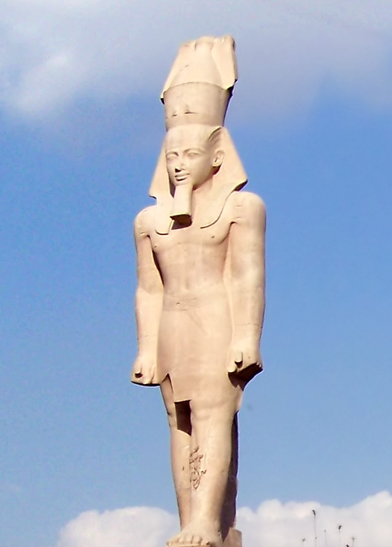 A replica of the Ramses II statue discovered in Memphis. The original was at first erected on Midan Ramsis square in front of the main railroad station of Cairo. The replica farewells tourists as they head into the airport on Salah Salem street.